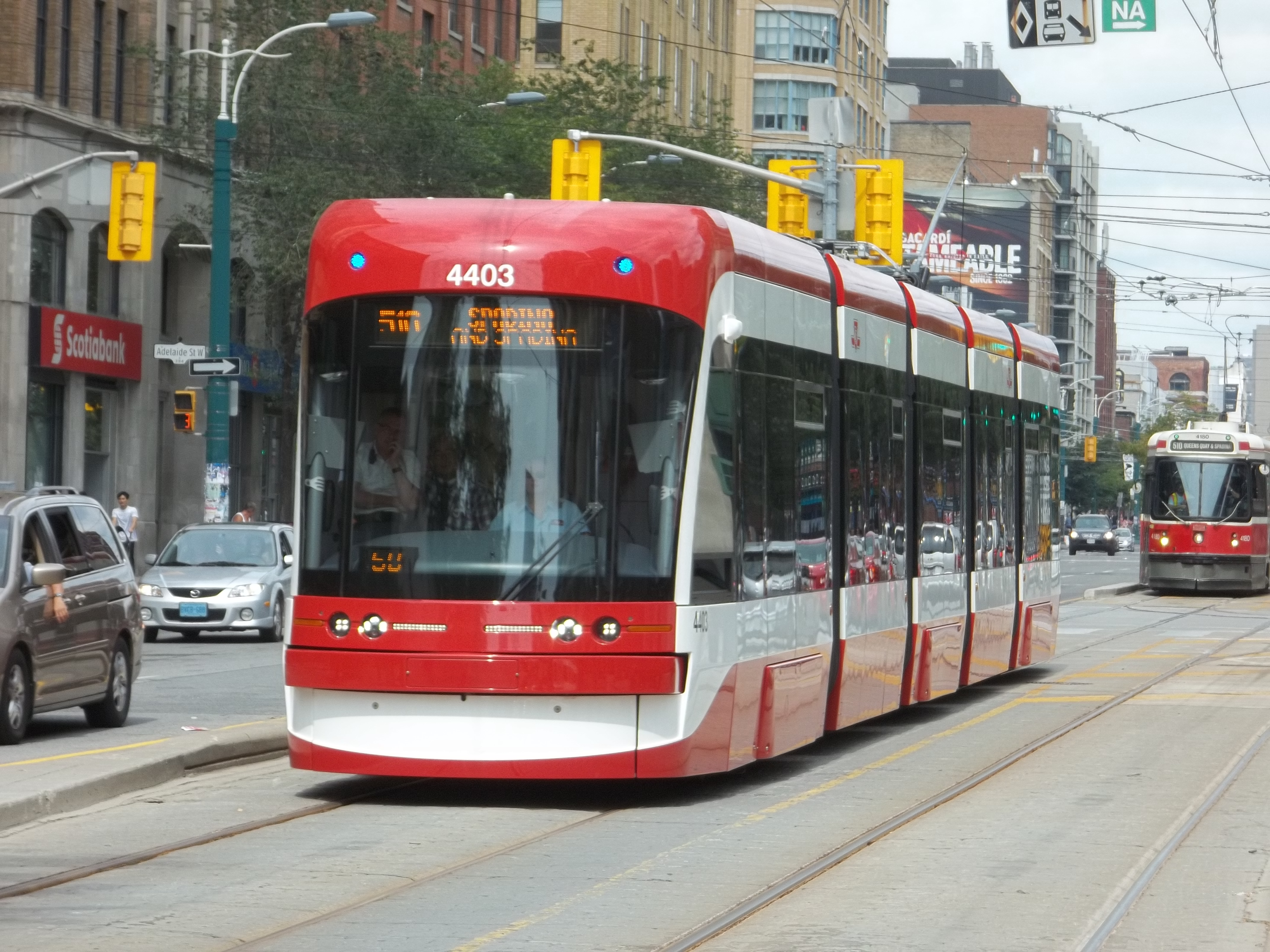 Flexity outlook 4403 heading south, 2014 08 31 (8) I rode this streetcar, on its first day in service, 2014 08 31 OTRS ticket 2012092210003274